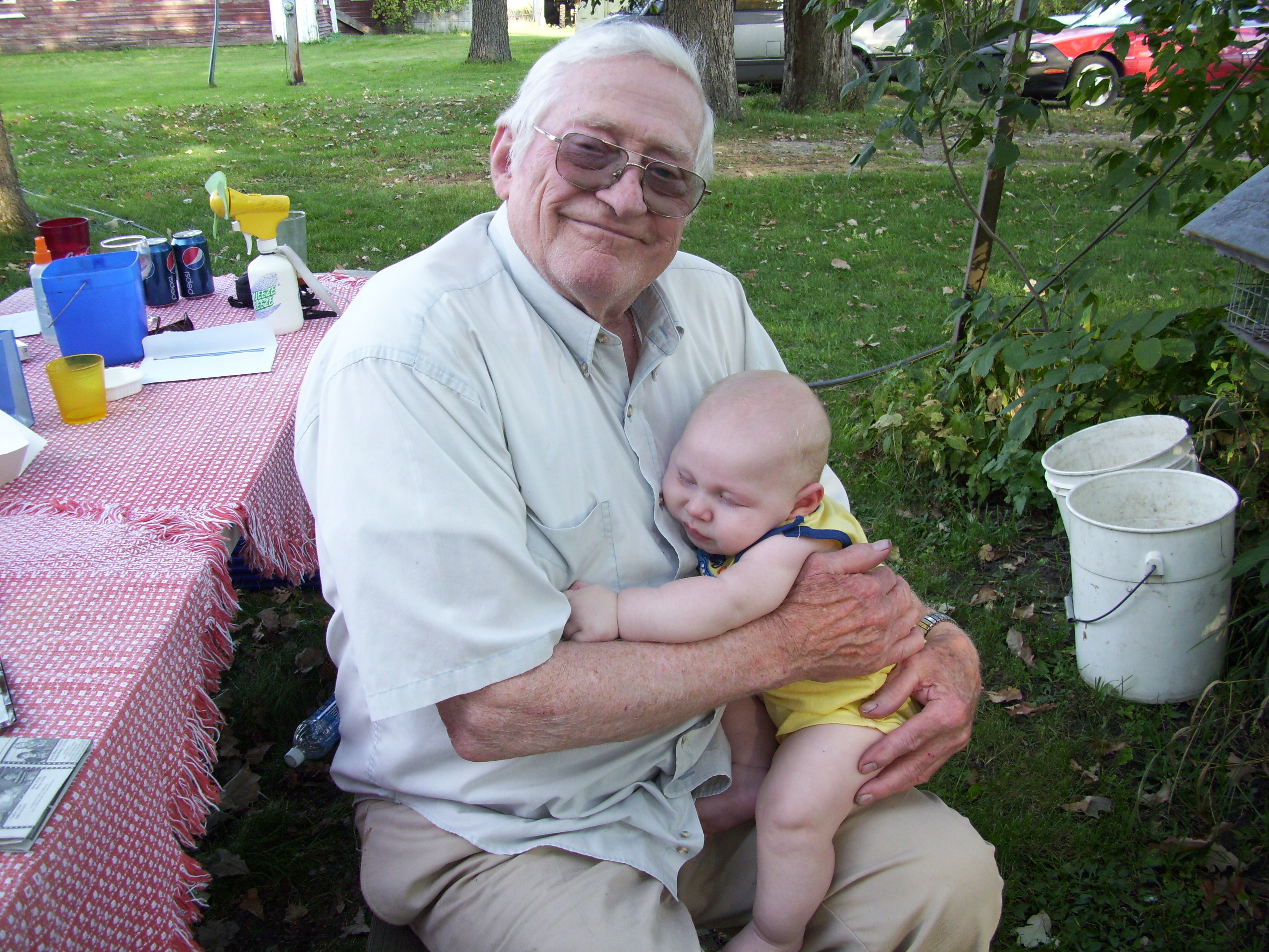 Gerald Gustafson with grandson